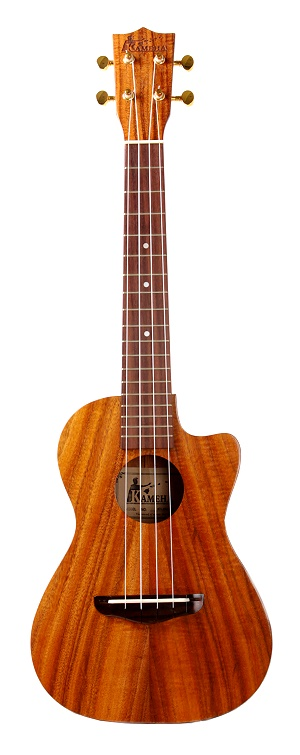 UKULELE